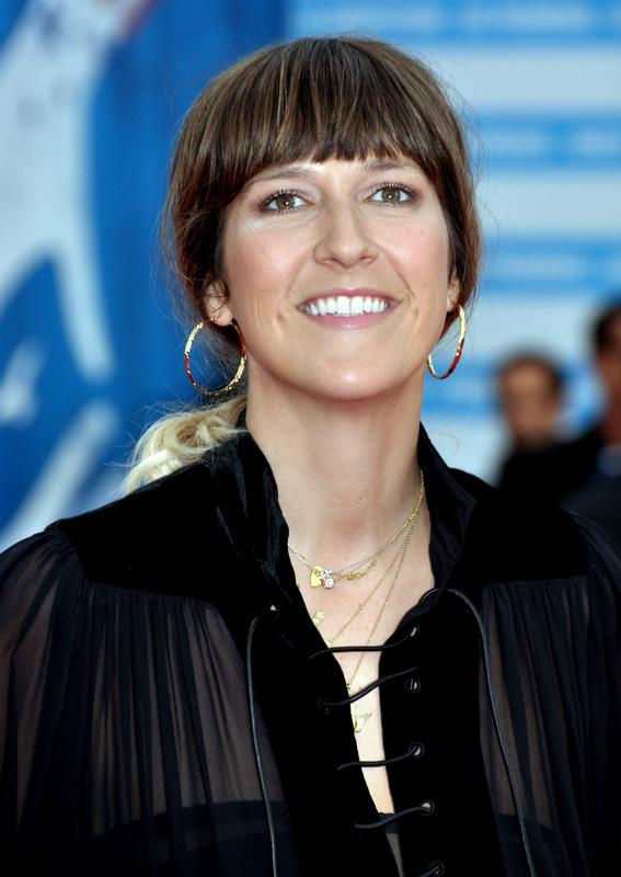 Daphne Burki at 'The Bourne Legacy' premiere at the 2012 Deauville American Film Festival